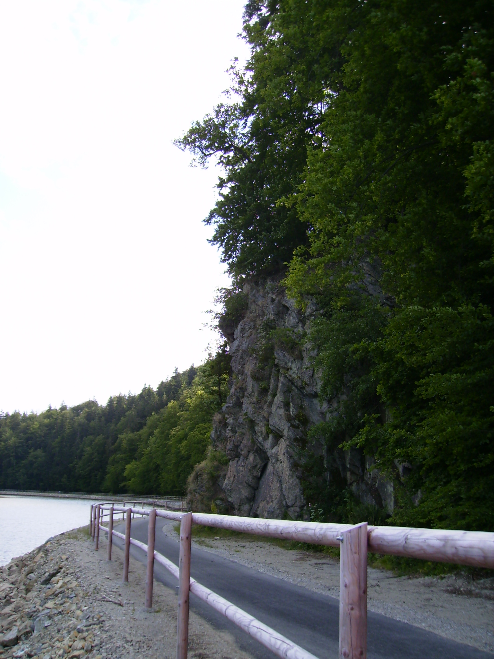 Nature reserve Baba near Hluboká nad Vltavou, České Budějovice District, Czech Republic